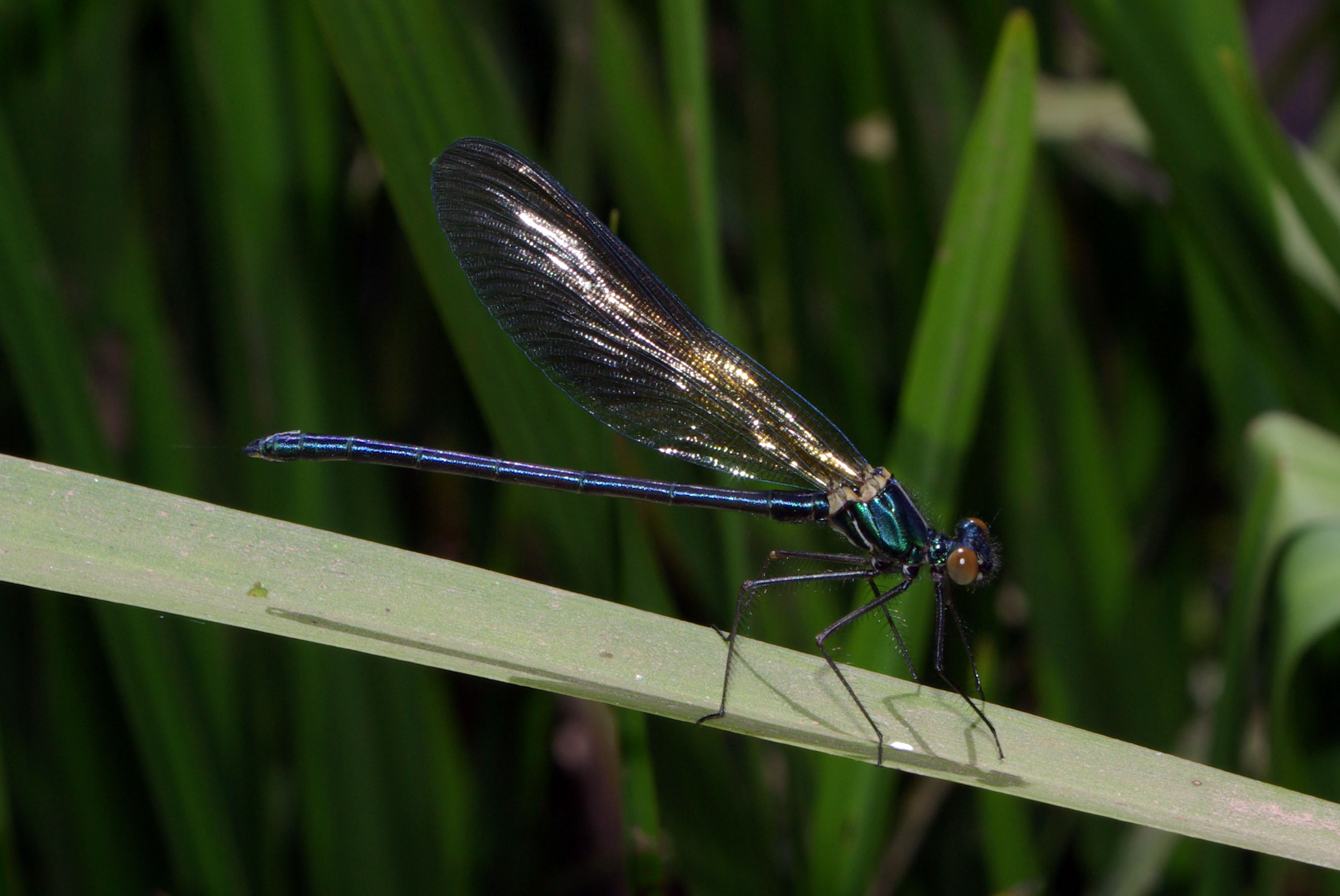 Demoiselle (Calopteryx splendens). River Arlanza, Burgos (Spain)